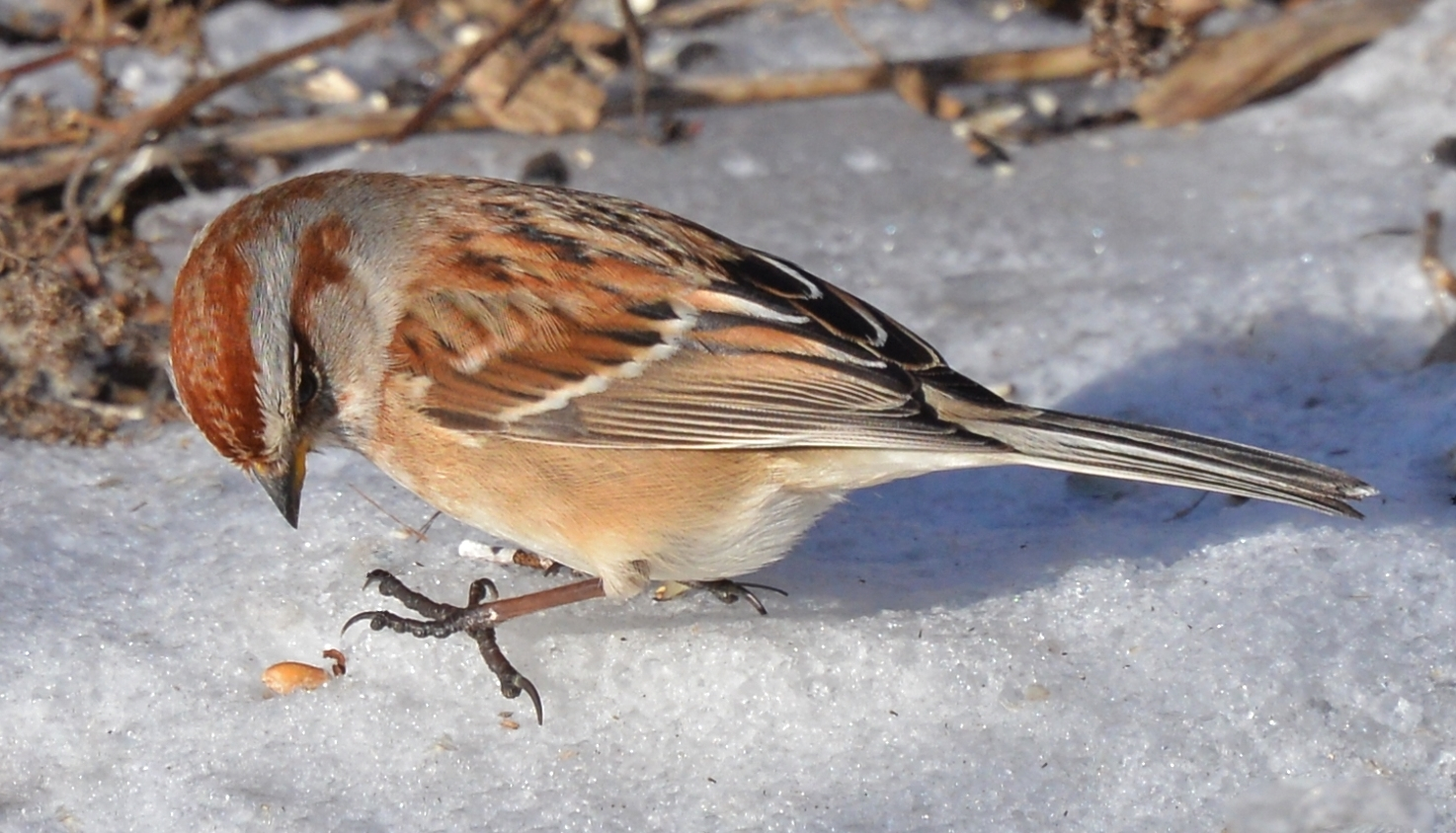 American tree sparrow (Spizelloides arborea) in Lambton Woods park, Toronto